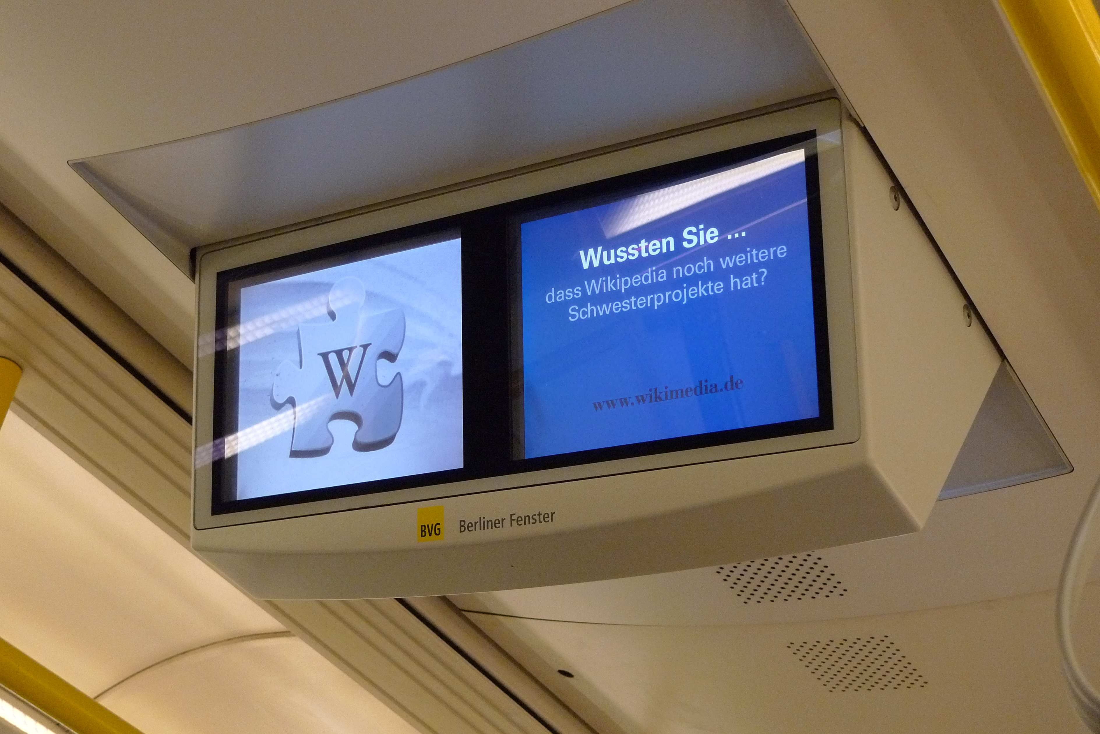 Wikipedia commercial in Berlin subway